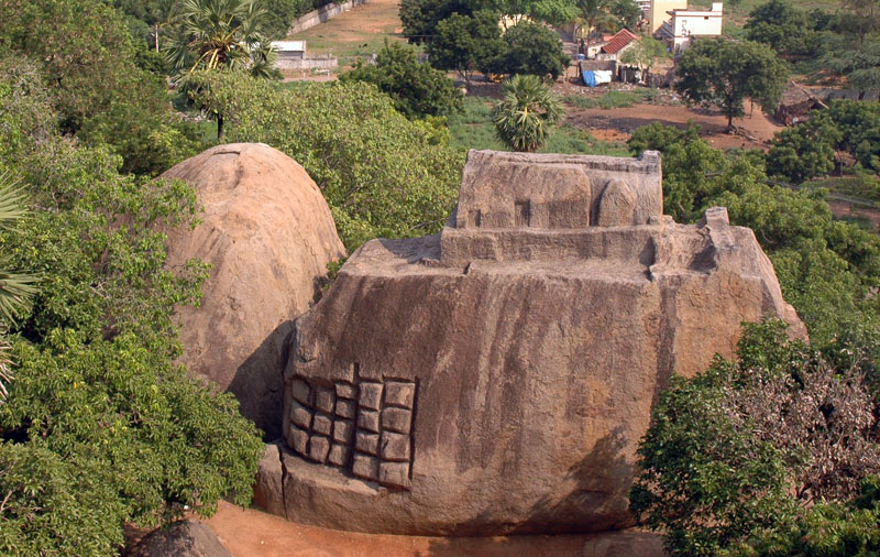 Unfinished ratha. Mahabalipuram, India